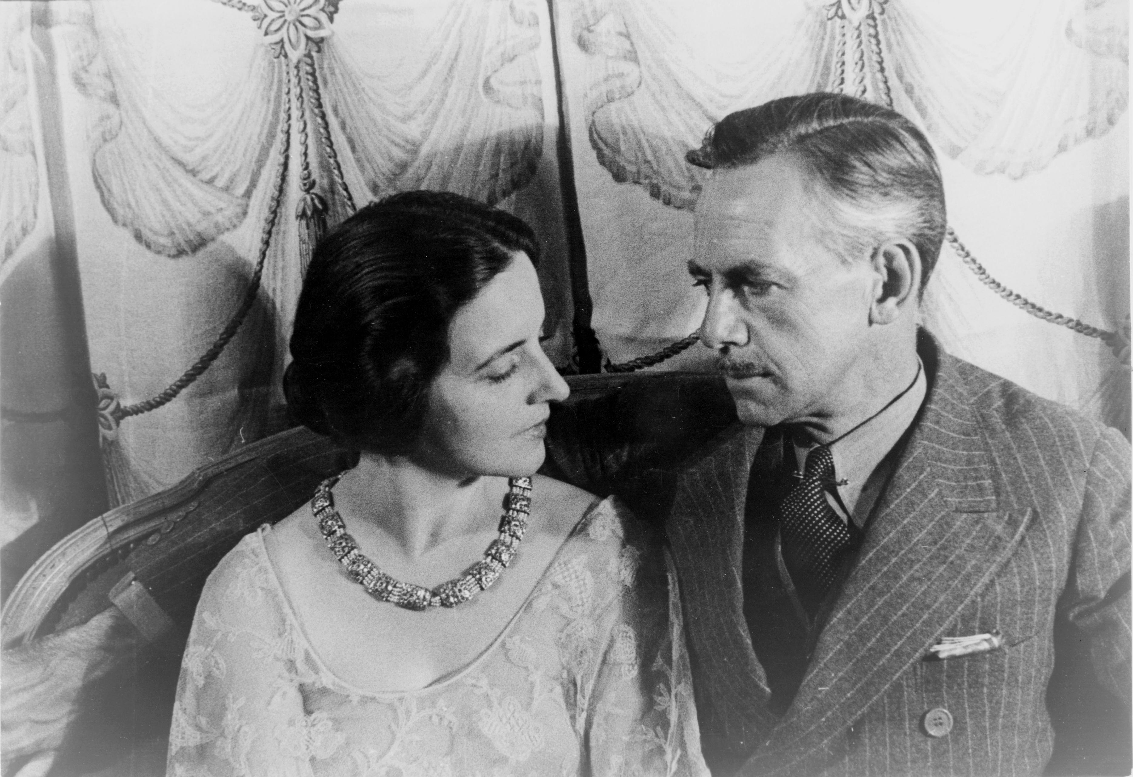 Eugene O'Neill and Carlotta Monterey O'NeillPortrait of Eugene O'Neill and Carlotta Monterey O'Neill